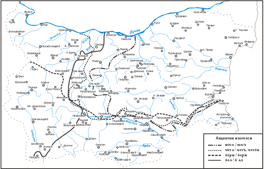 Map showing accent isoglosses of Bulgarian speech.